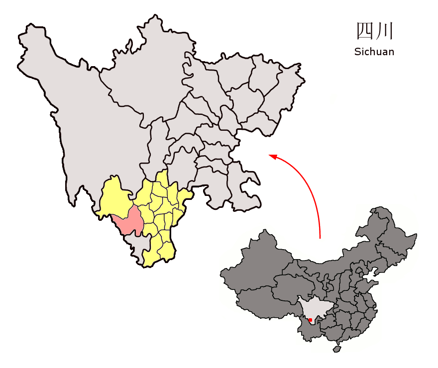 Location of Yanyuan County (pink) and Liangshan Prefecture (yellow) within Sichuan province of China Map drawn in september 2007 using various sources, mainly : Sichuan province administrative regions GIS data: 1:1M, County level, 1990 Sichuan Counties map from